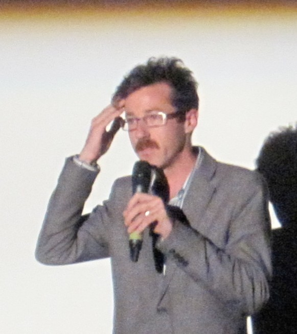 YOU ARE HERE director Daniel Cockburn leads a post-show Q&A. Or rather, Q&more Q...